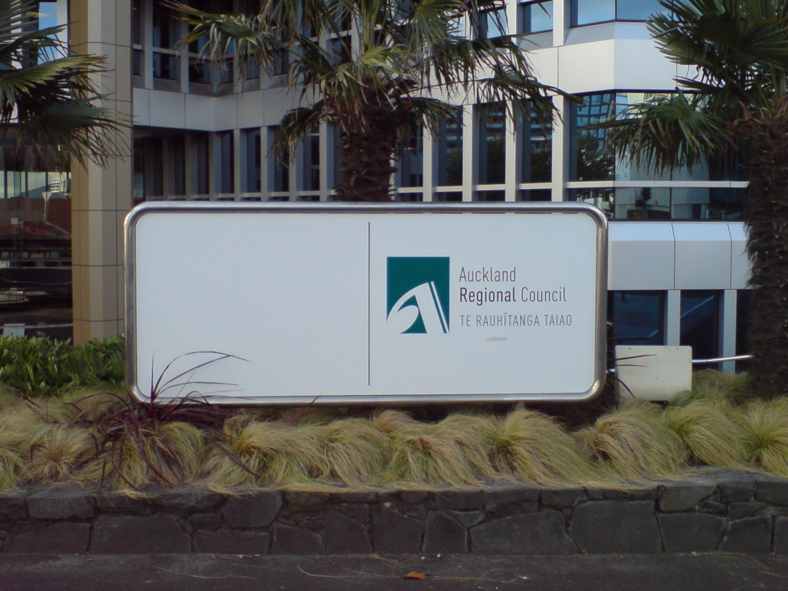 Sign of the Auckland Regional Council outside its building on Pitt Street, Auckland City, New Zealand.